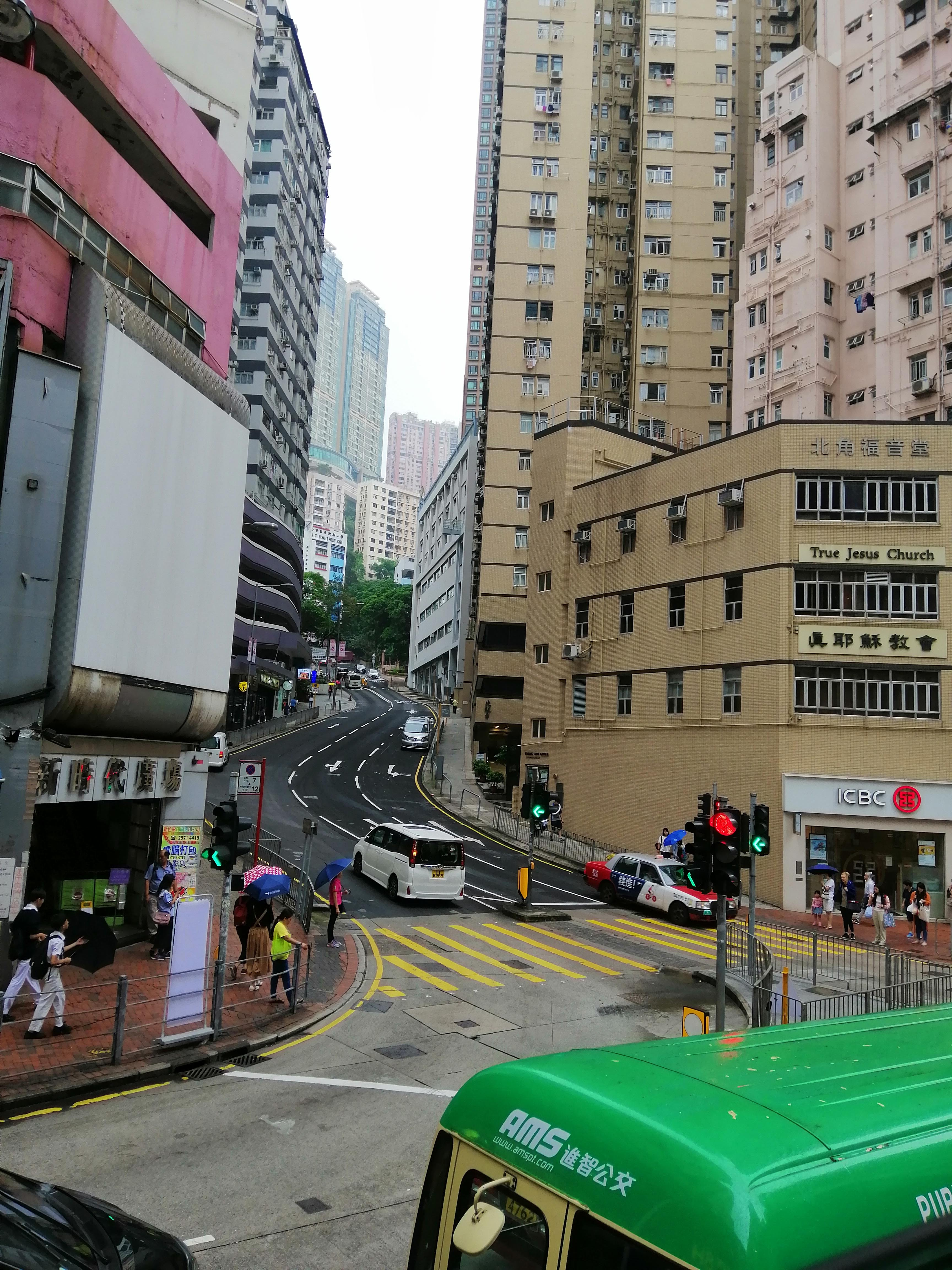 Scenery of Hong Kong Island